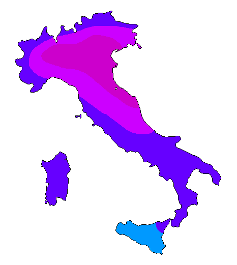 Map of daily sunshine hours in Italy in November